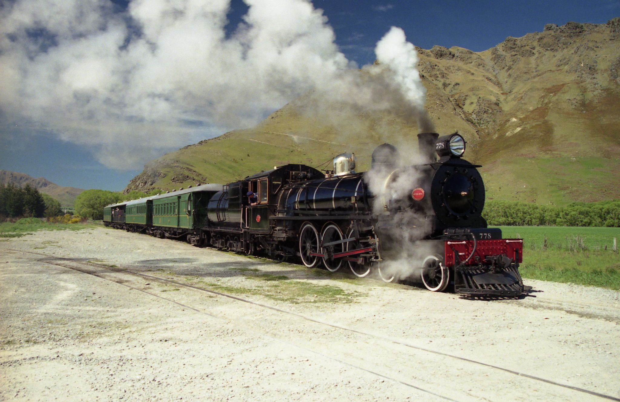 NZR AB Class Pacific No. 778 hauling the Kingston FlyerKingston Flyer